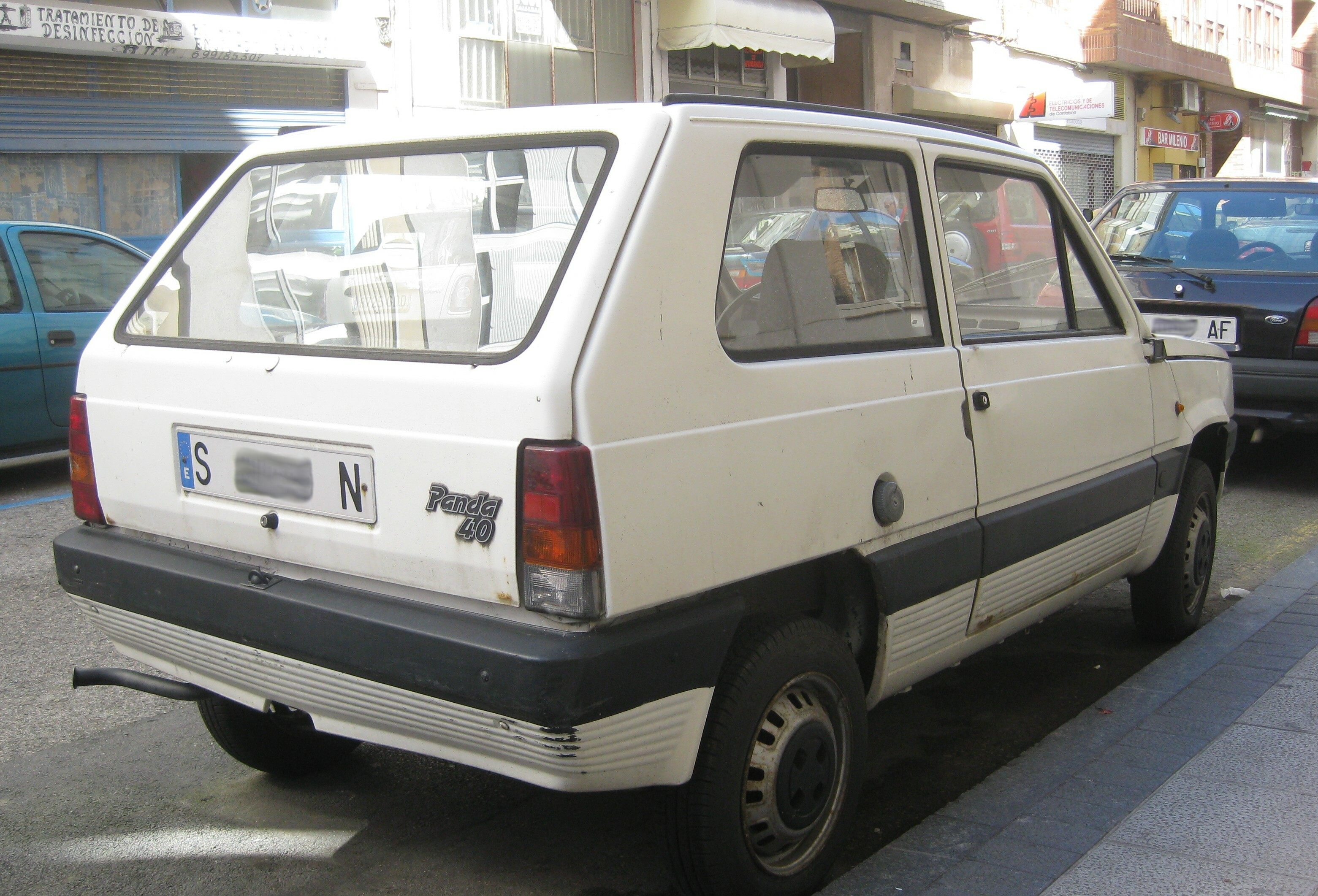 Such a humble car in every sense, it had a 1986 plate from Santander (Cantabria), was found there too.